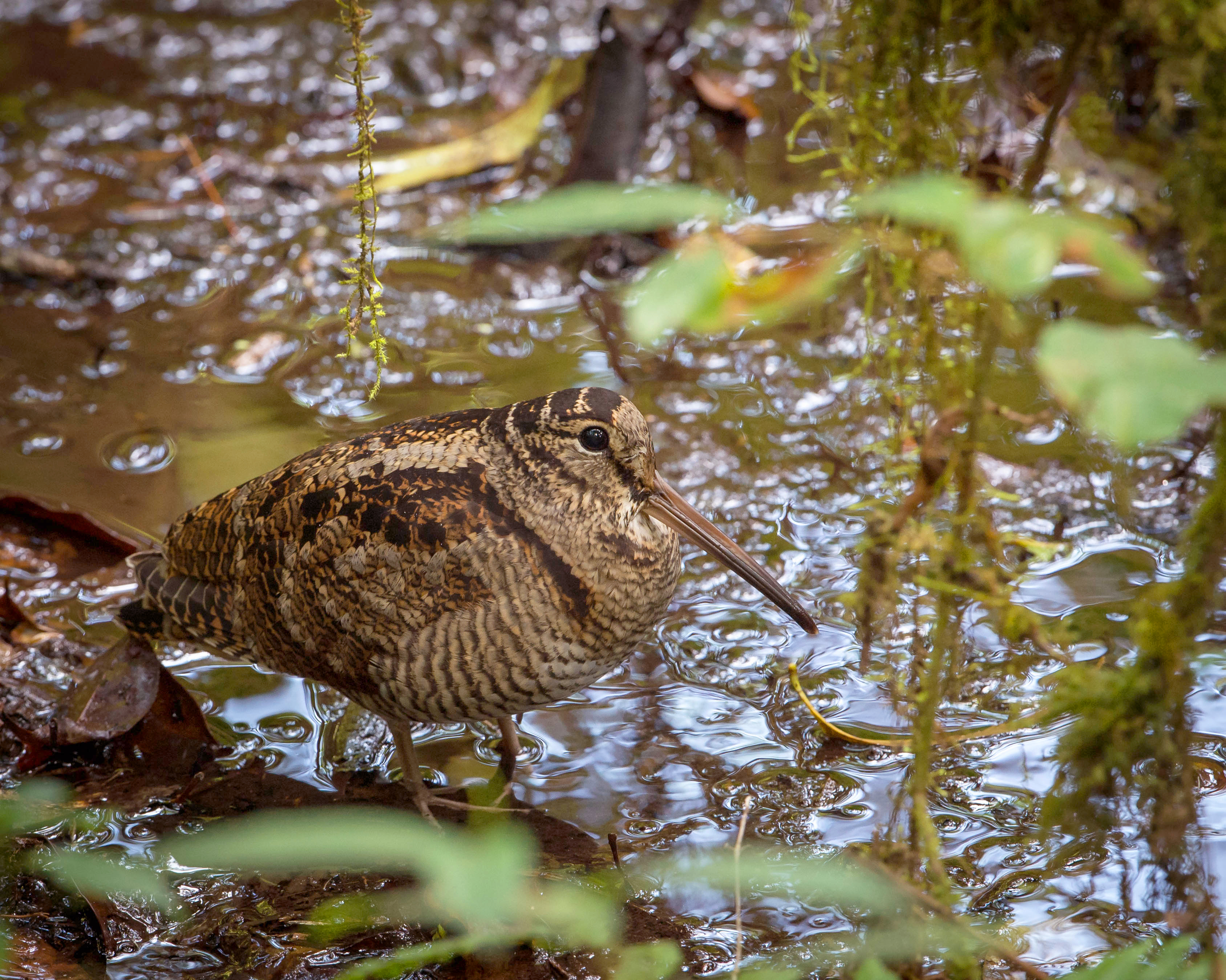 Eurasian Woodcock (Scolopax rusticola) at The Doi Inthanon summit boardwalk, 2500 meters above sea level, Doi Inthanon National Park, Chiang Mai, Thailand. 26 February 2013